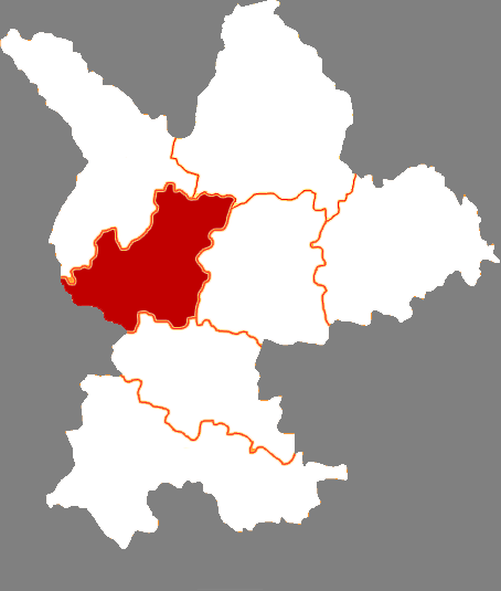 Location of Weiyuan county in Dingxi city, China